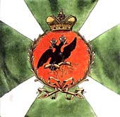 Standard of the en:2nd Sofia Infantry Regiment.